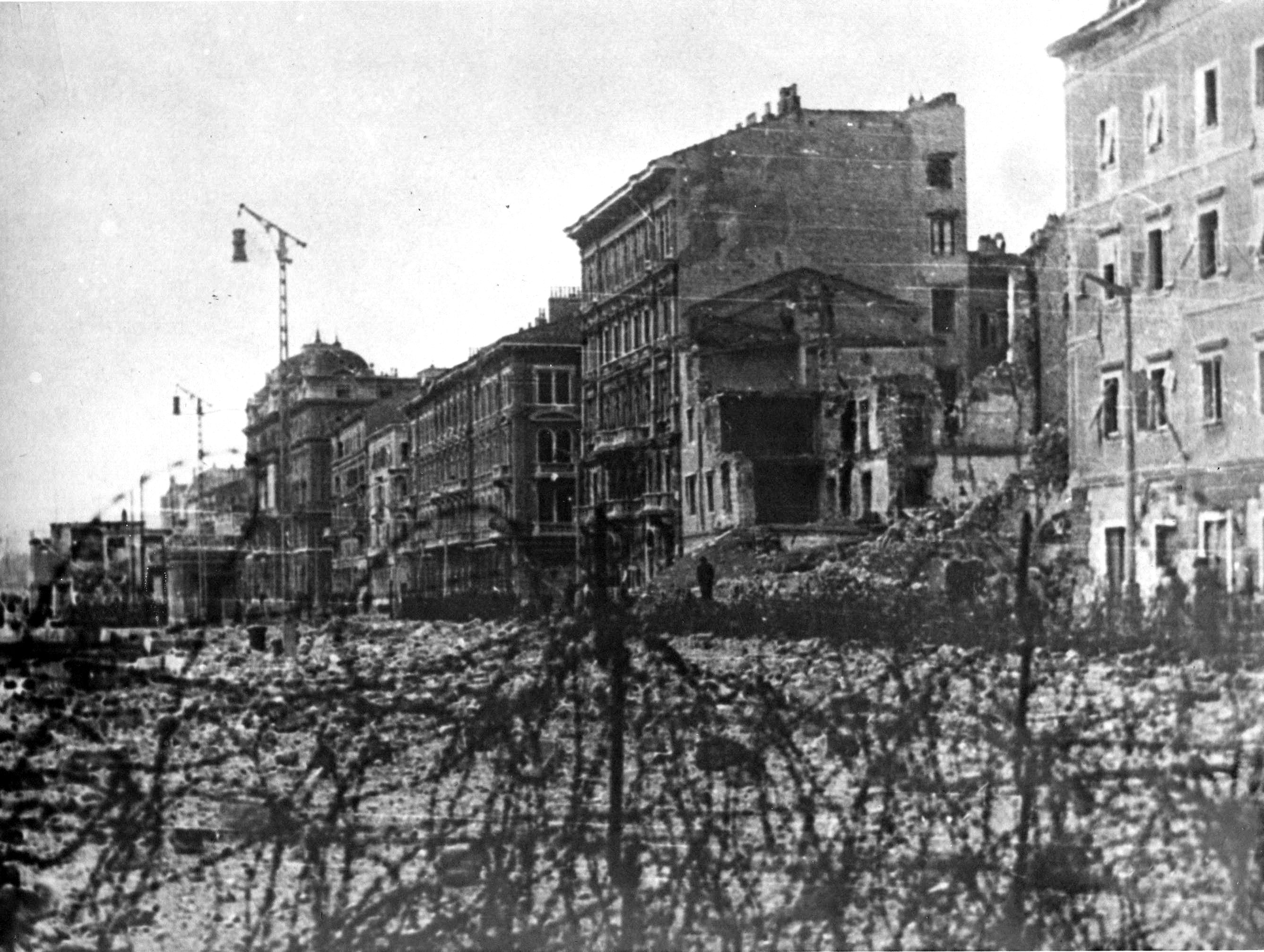 Damaged buildings in the center of Rijeka after the liberation in 1945.